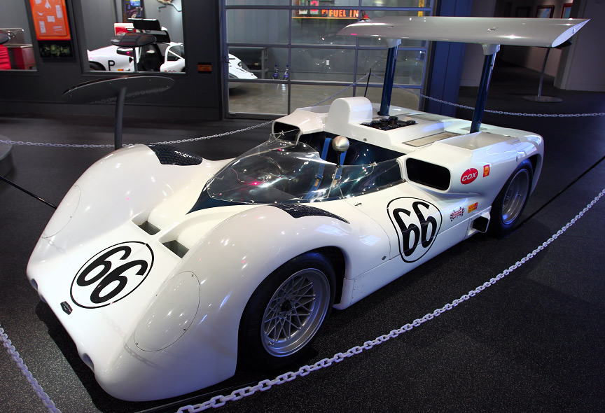 Chaparral 2E on display on the Petroleum Basin Museum